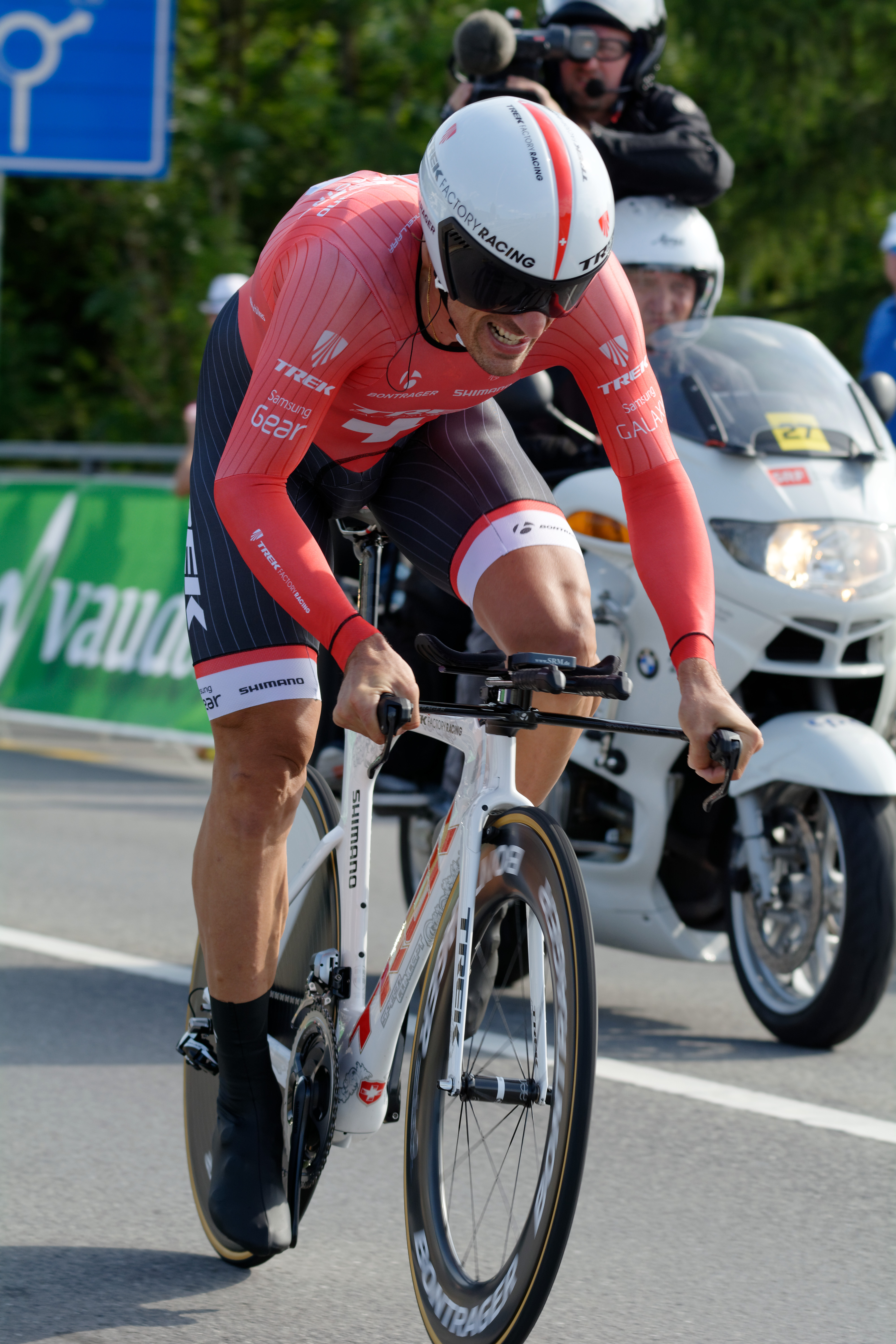 Fabian Cancellara, Swiss rider of the team Trek Factory Racing, on stage 1 of the Tour de Suisse 2015